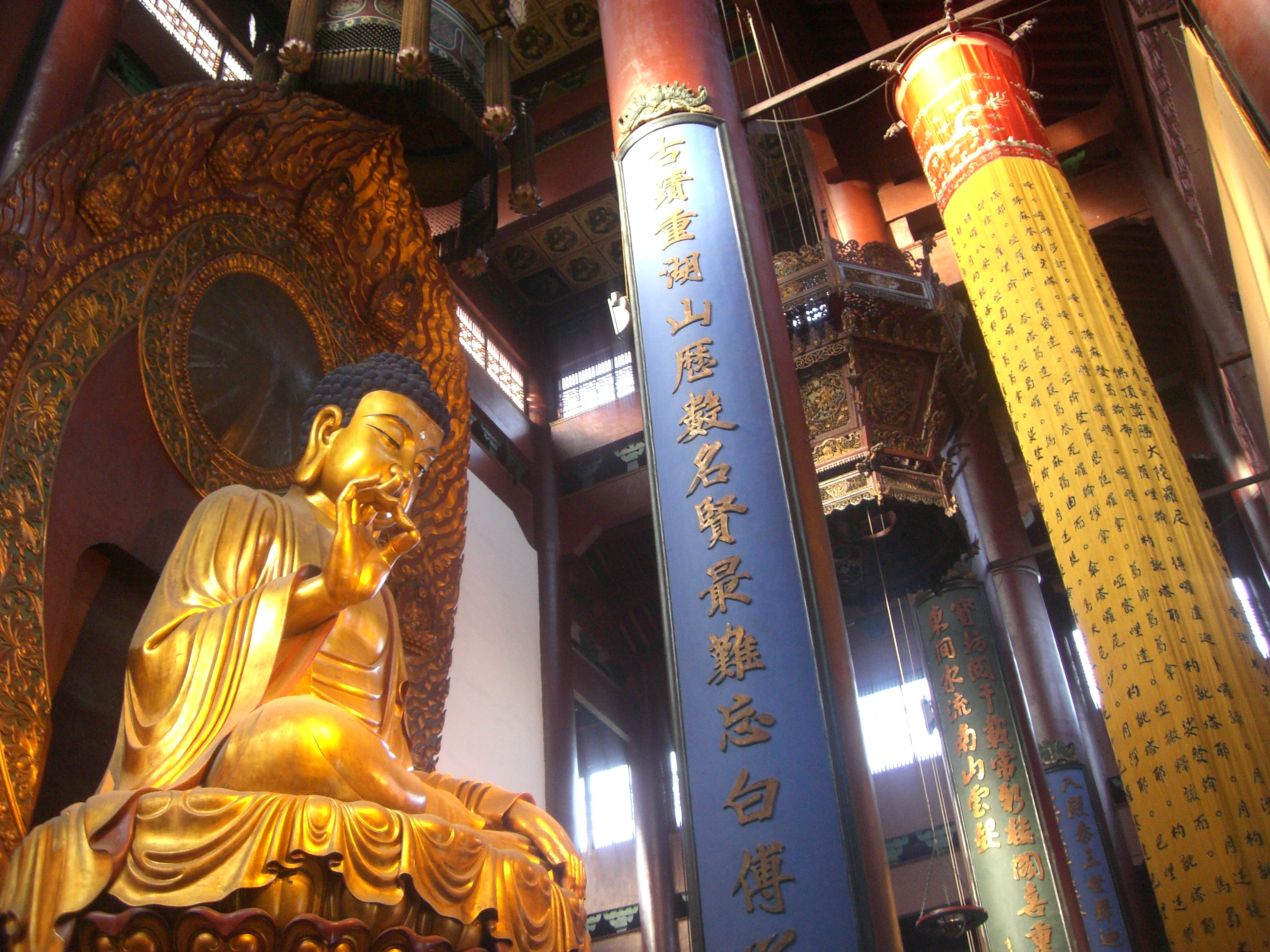 In this picture can be perceived not only the size and beauty of the big Sakyamuni statue but also of the hall. One of the biggests Buddhist halls in China.